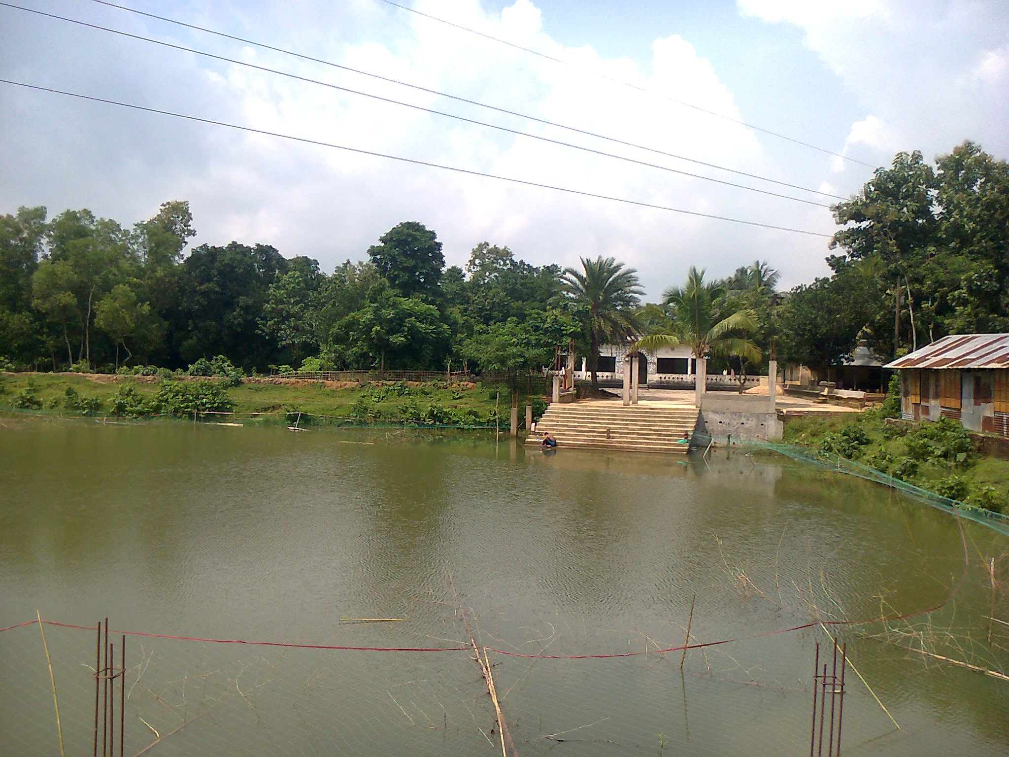 Mirerkhil Jame Mosque and Mirer Pukur (Pond)